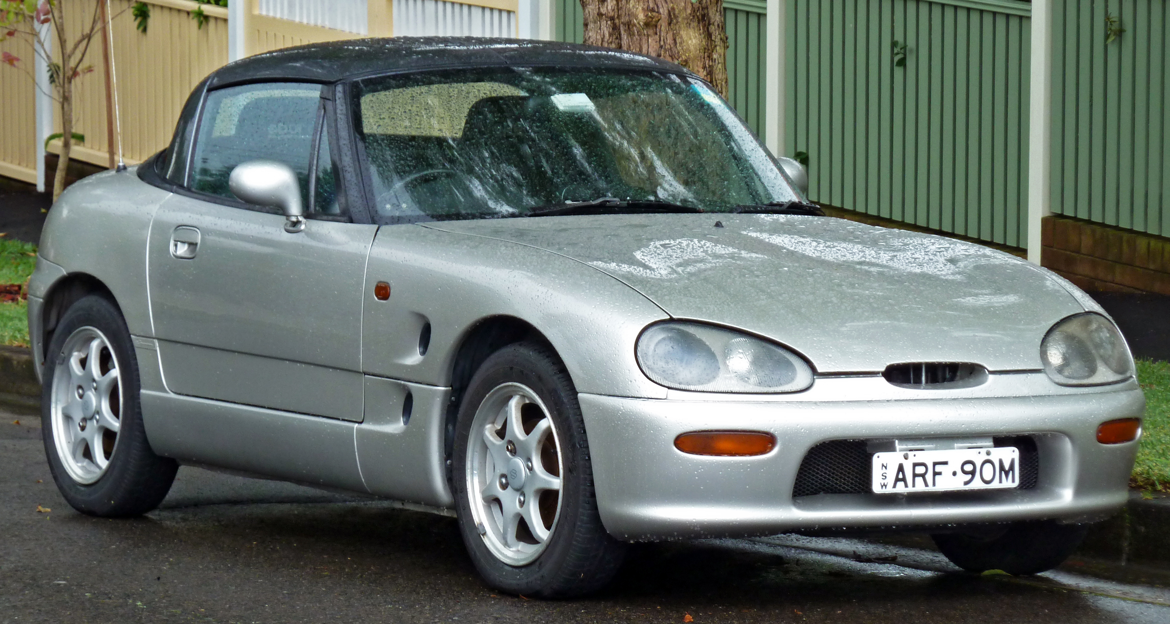 1992–1997 Suzuki Cappuccino convertible. Photographed in Roseville, New South Wales, Australia.